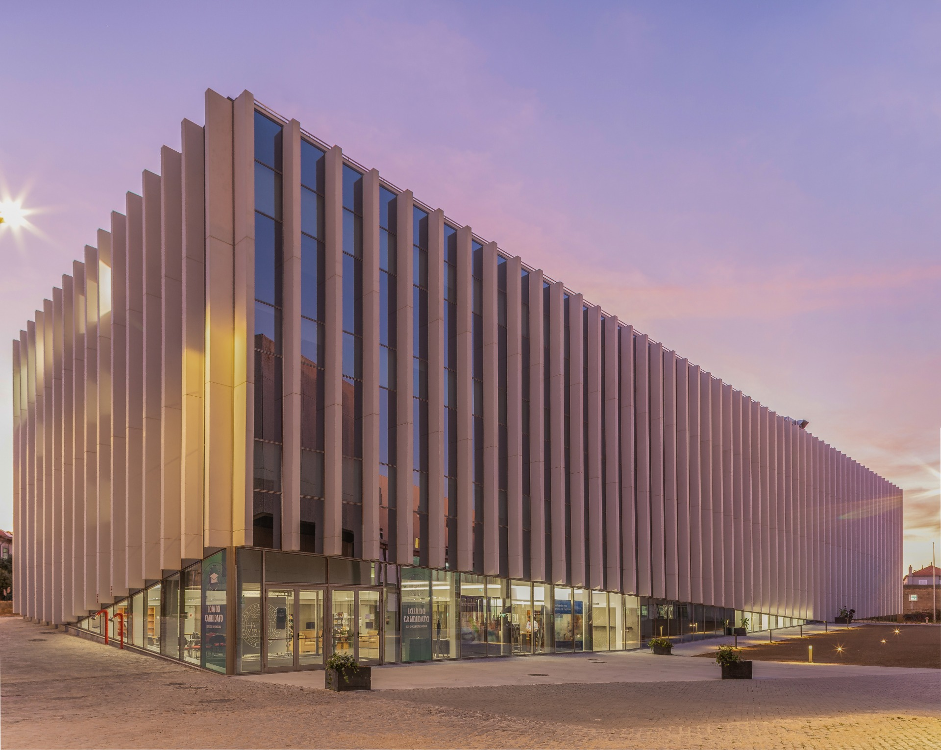 UCP Faculty of Biotechnology